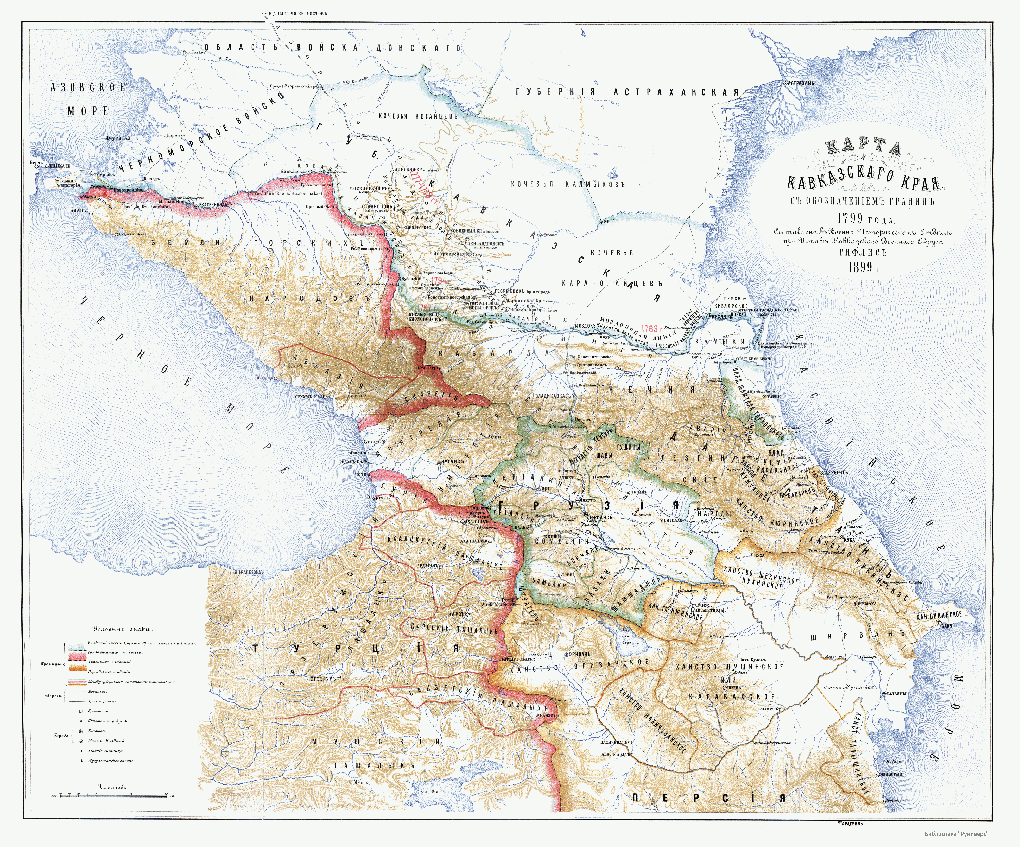 Borders in the Caucasus region in 1799.